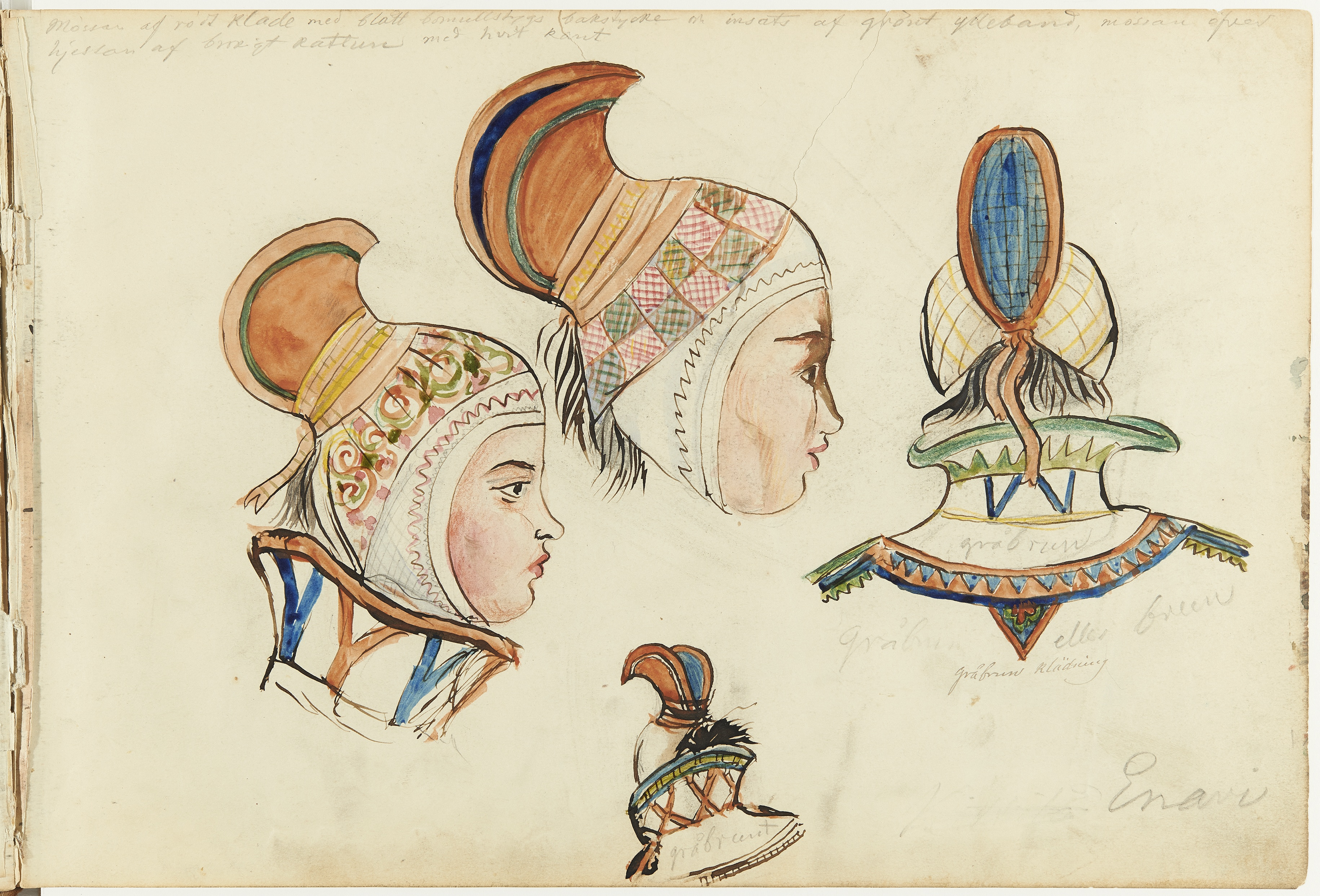 Traditional Sami women's "horned cap" seen in Inari, Finland, drawing by Carl Erik Soldan (1811-1870) 1850 - 1860. This type of cap was traditionally worn by Sami wives and widdows in Finnmark, Norway, etc. in the 19th century. The headdress is called "ládjogahpir", "ládju", etc. in Sami, "hornlue" in Norwegian, "sarvilakki" or "kuumukka" in Finnish, and "hornmössa" in Swedish. Scan copied from Organisation: National Board of Antiquities - Musketti; collection: Historian kuvakokoelma; inventory ID: HK19880116:1.21; measurements: 21 x 31 cm.